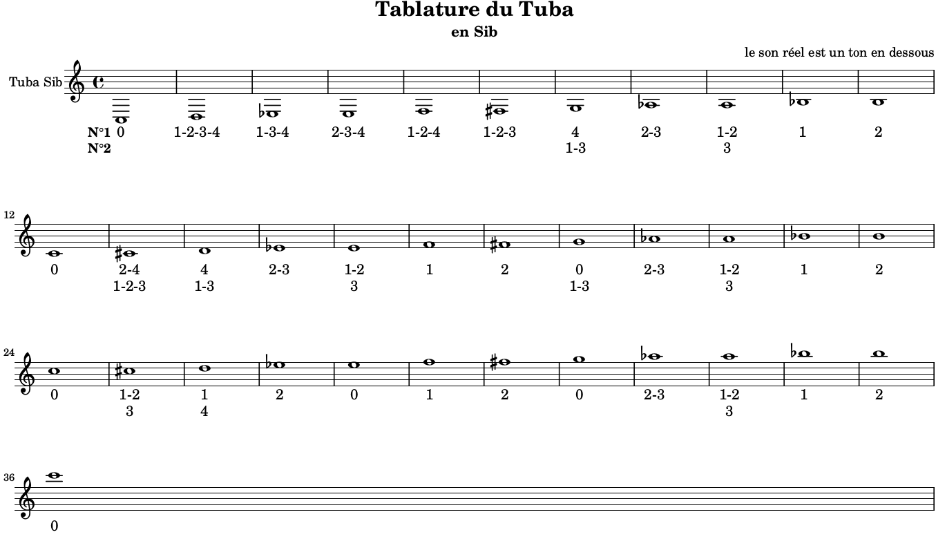 Tuba Bb Fingering